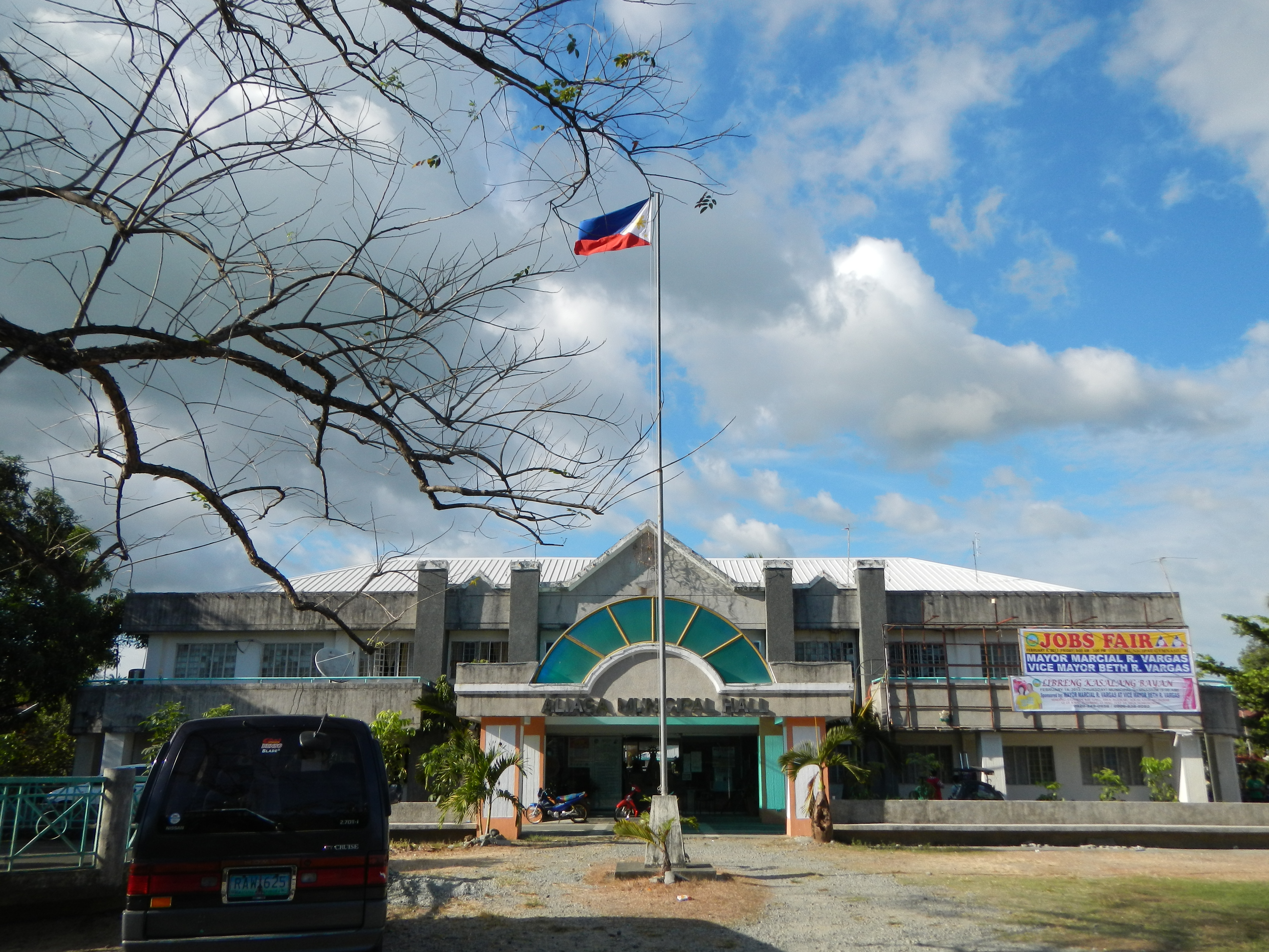 [1]Aliaga, Nueva Ecija is a second class municipality in the province of Nueva Ecija, Philippines, Formerly it was called Pulung Bibit and Maynilang Munti (Little Manila). It is the Divisoria of the North.[2] Coordinates: 15°30'27"N 120°51'31"E[3] In Aliaga, Nueva Ecija, in Barangay Bibiclat, "mud people" -- "taong putik festival - June 24" Taong Putik Festival of Aliaga